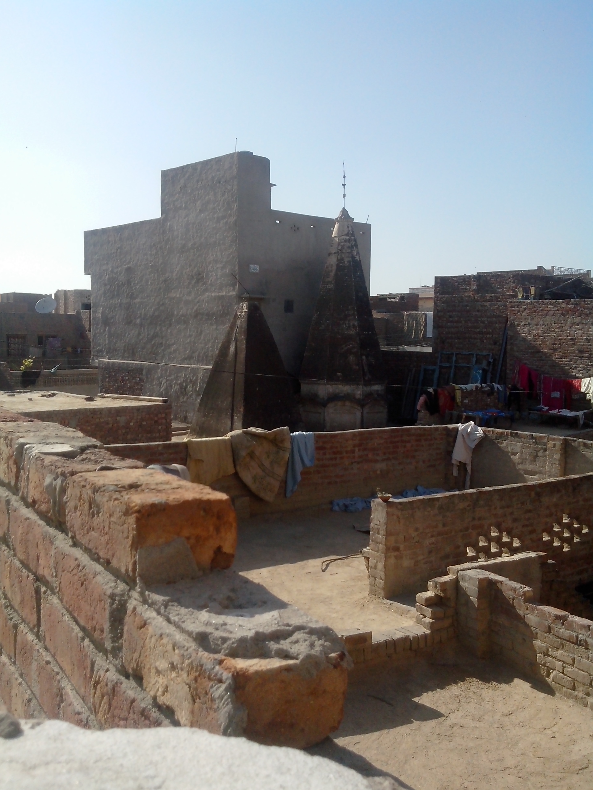 It is an image of Hindu temple (mandir/mandar) in Sangla Hill. Temple is behind a high rise building so can not be seen from road.